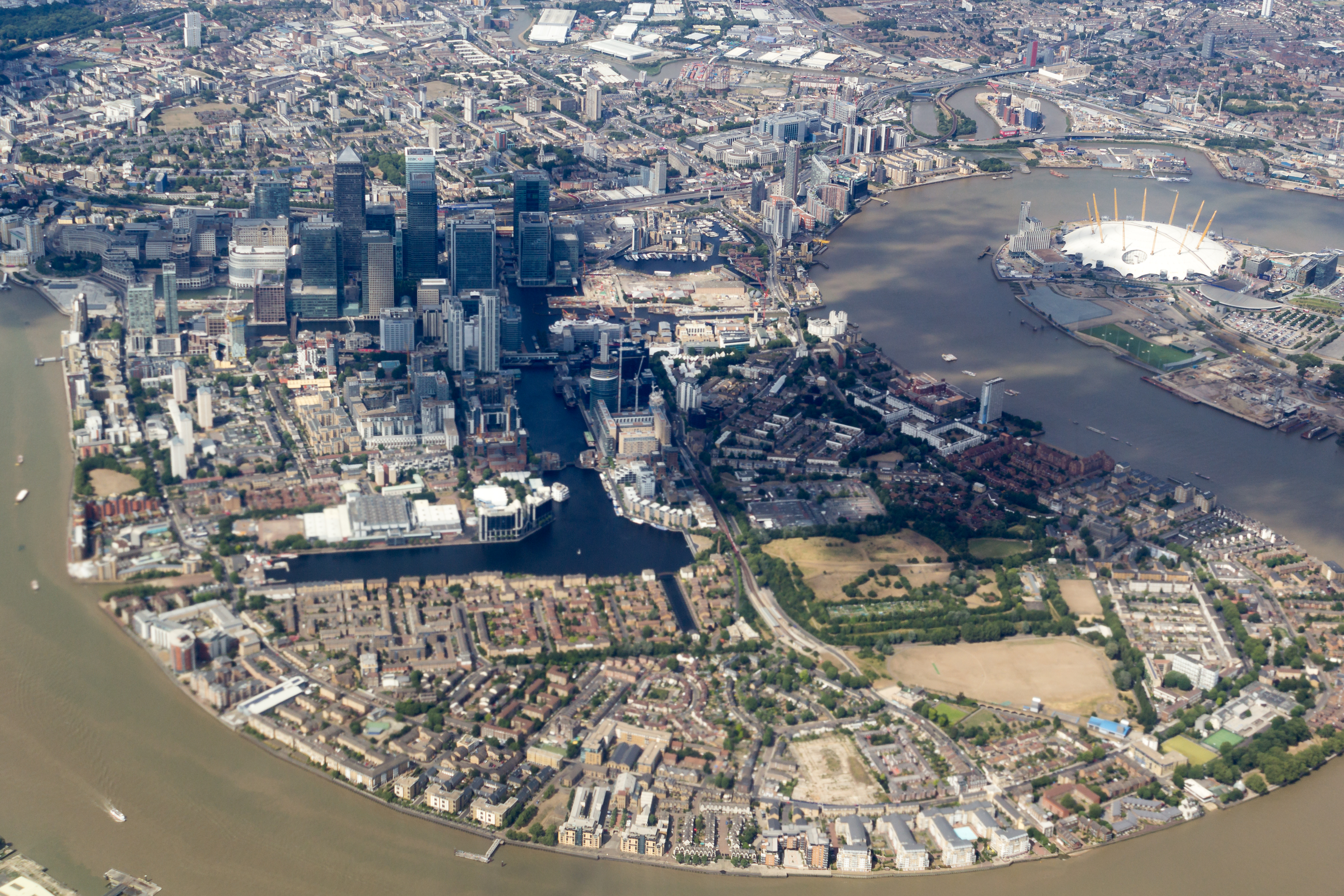 Aerial photograph of London Docklands taken on a Boeing 787-8 Dreamliner registration N967AM on approach to London Heathrow Airport (LHR/EGLL). The O2 Arena is visible to the right of Canary Wharf district.